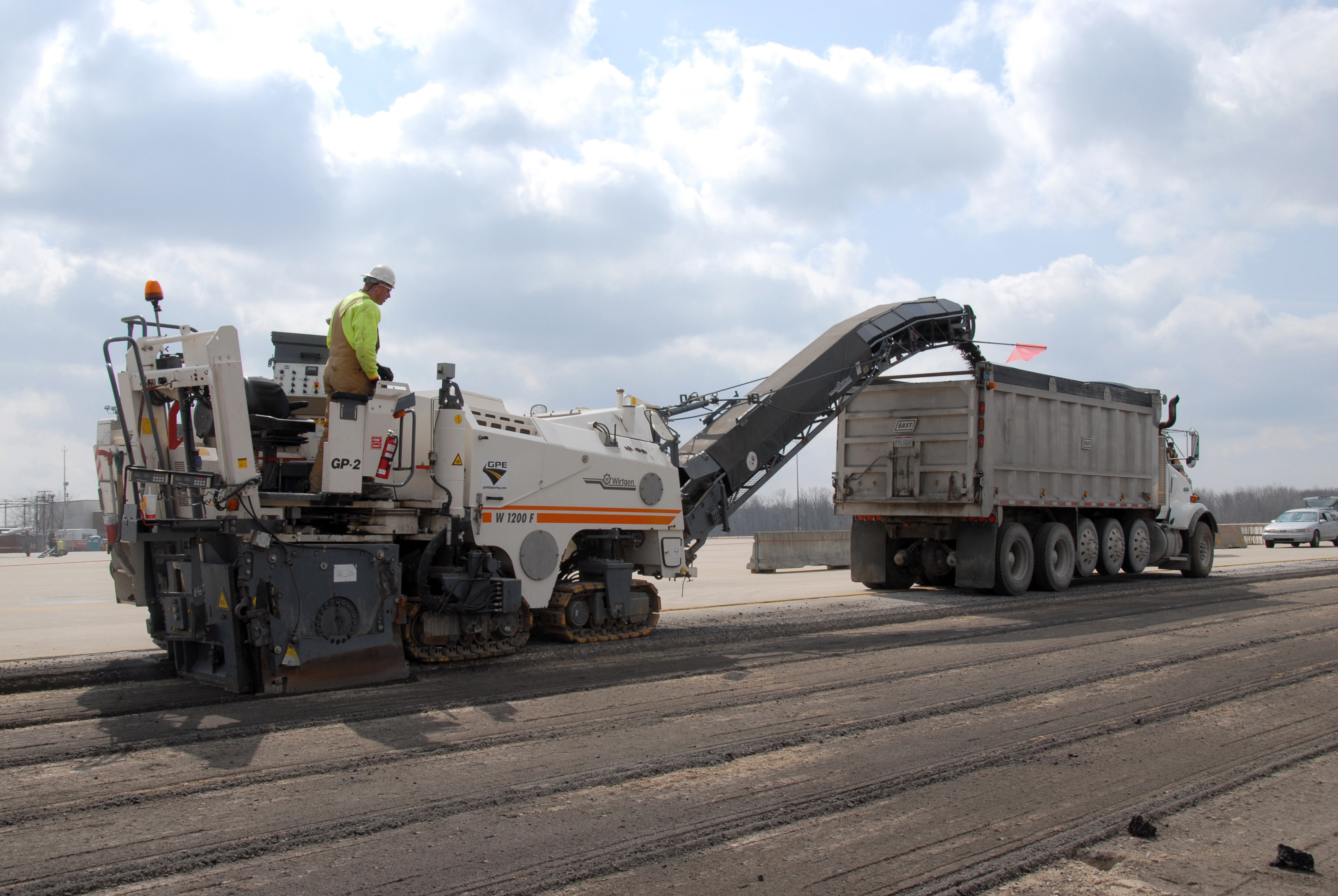 Contractors use a milling machine to remove a portion of the flight line at the 180th Fighter Wing, Ohio Air National Guard's facility in Swanton, Ohio, March 26, 2008. The concrete is being removed in preparation for the building of a seven-foot-wide, 14-foot-tall blast wall which will protect the community and businesses on the other side from potential forward firing munitions. The blast wall is being erected as part of the infrastructure for the Air Sovereignty Alert Mission, which will aid in the protection of the continental United States and Canada under the direction of North American Air Defense Command.